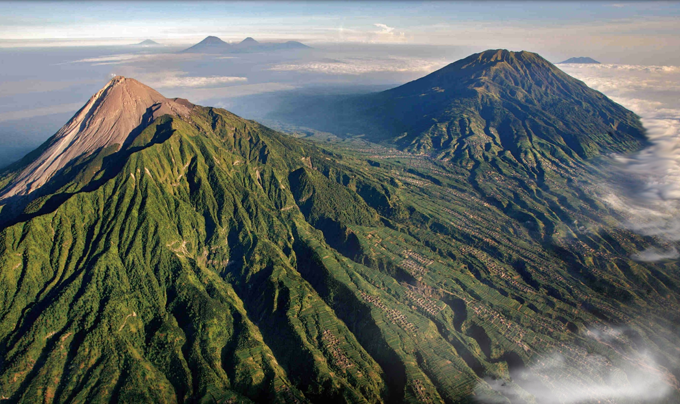 Aerial view of Mount Merapi volcano and six other volcanoes (Mount Merbabu, Mount Ungaran, Mount Sumbing, Mount Sundoro, Dieng and Mount Slamet) on the island of Java, Indonesia. (Move the cursor over the image to see annotated name tags of all the volcanoes.)